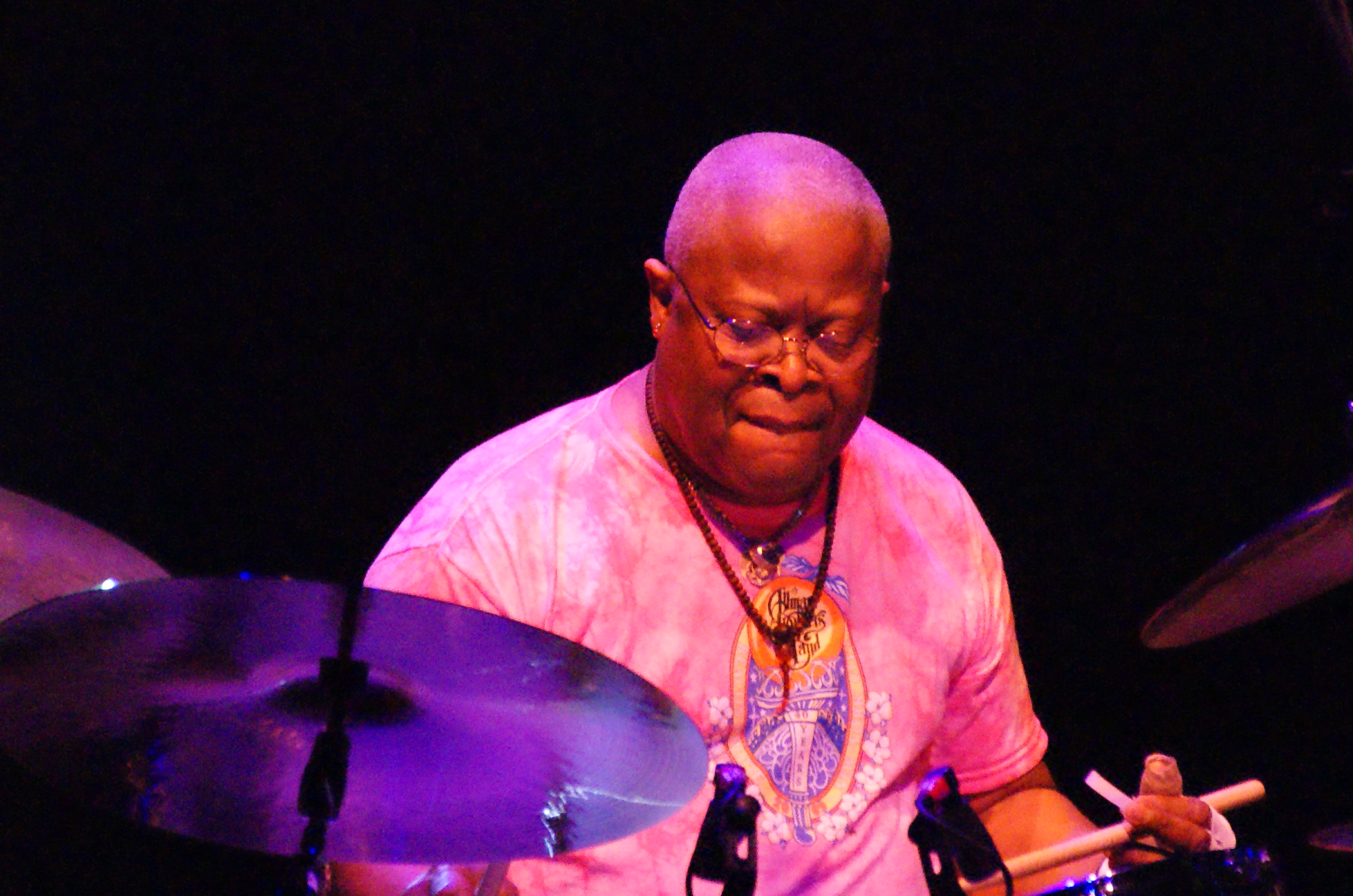 Jai Johanny Johanson, aka Jaimoe, playing with the Allman Brothers Band at the Beacon Theater, New York City March 26, 2009